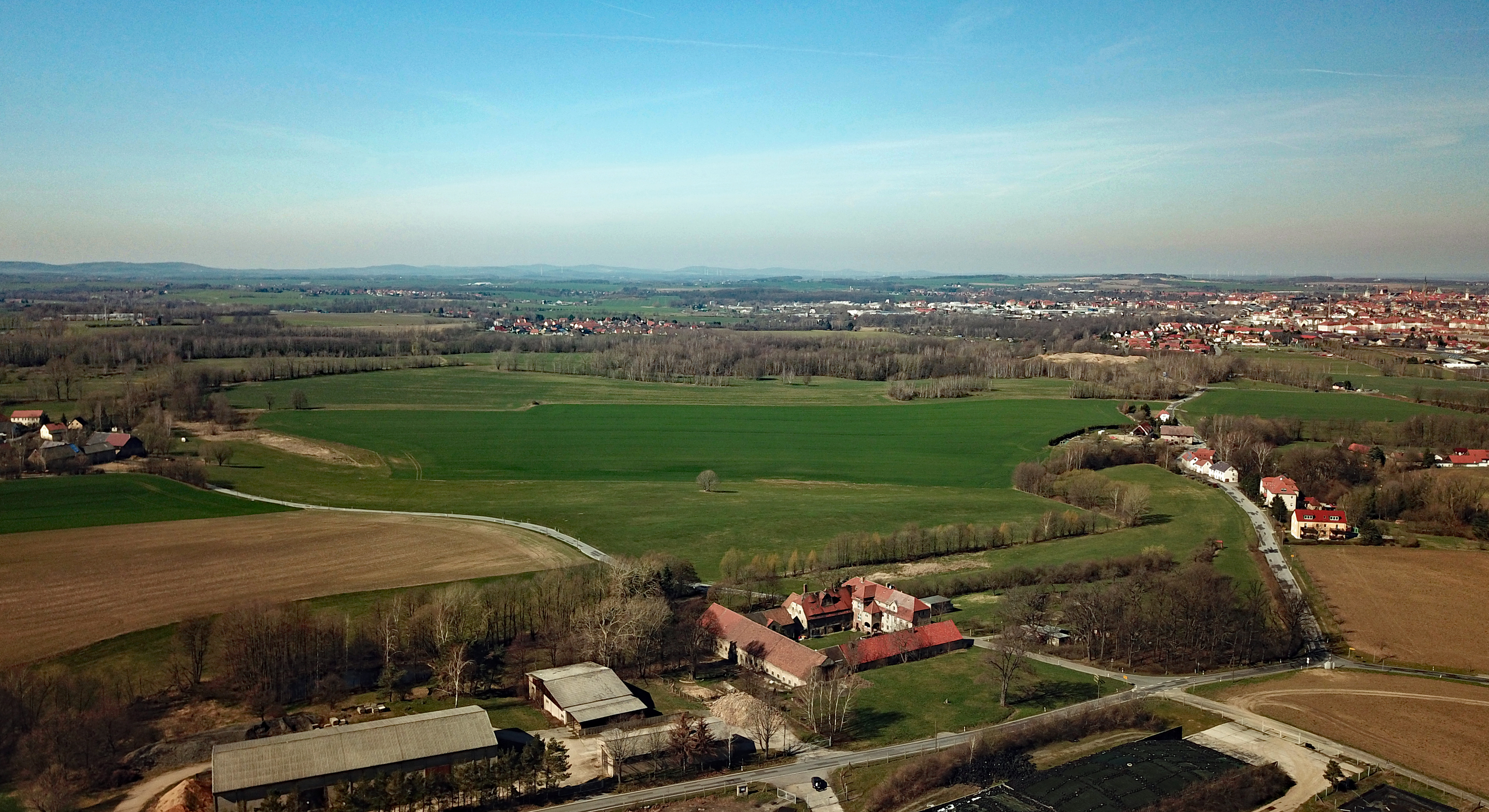 Jeßnitz (Kubschütz, Saxony, Germany) Hornjoserbsce: Powětrowy wobraz Jaseńcy w Kubšiskej gmejnje Dieses Foto wurde mit einem Quadcopter innerhalb der RMZ des Flugplatzes EDAB aufgenommen. Der Flugleiter wurde am Aufnahmetag telephonisch über Ort und Zeit informiert und hat zugestimmt. Der Flug erfolgte auf Grundlage der Allgemeinverfügung der Landesdirektion Sachsen zur Erteilung der Betriebserlaubnis für unbemannte Luftfahrtsysteme und Flugmodelle gemäß § 21a LuftVO und Zulassung von Ausnahmen von Betriebsverboten gemäß § 21b LuftVO für den Freistaat Sachsen.